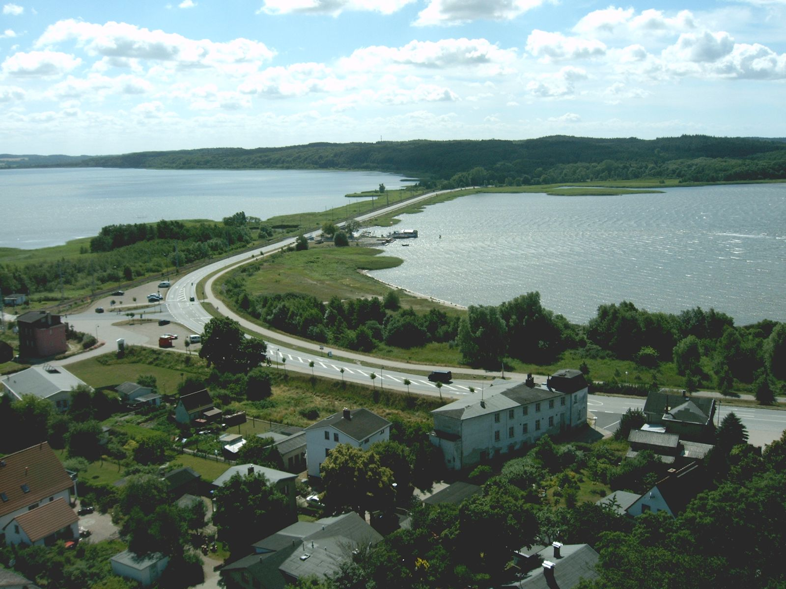 The strait between Kleiner (left) and Großer Jasmunder Bodden (right) at Lietzow was drained in the 19th century. Now there are the B 96 and the railway line to Sassnitz crossing it. The water shift is guaranteed by a sluce.